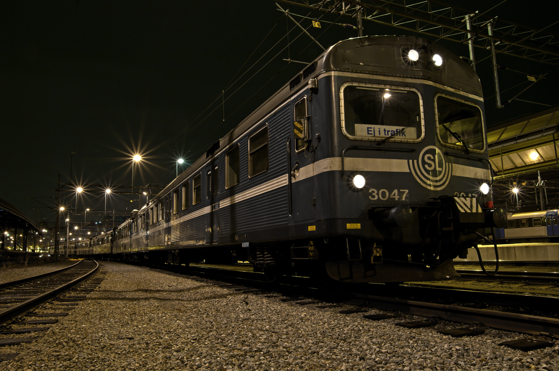 One X1 commutertrain parked at "Norra ban" section of Stockholm Centralstation railyard in nov 2008.